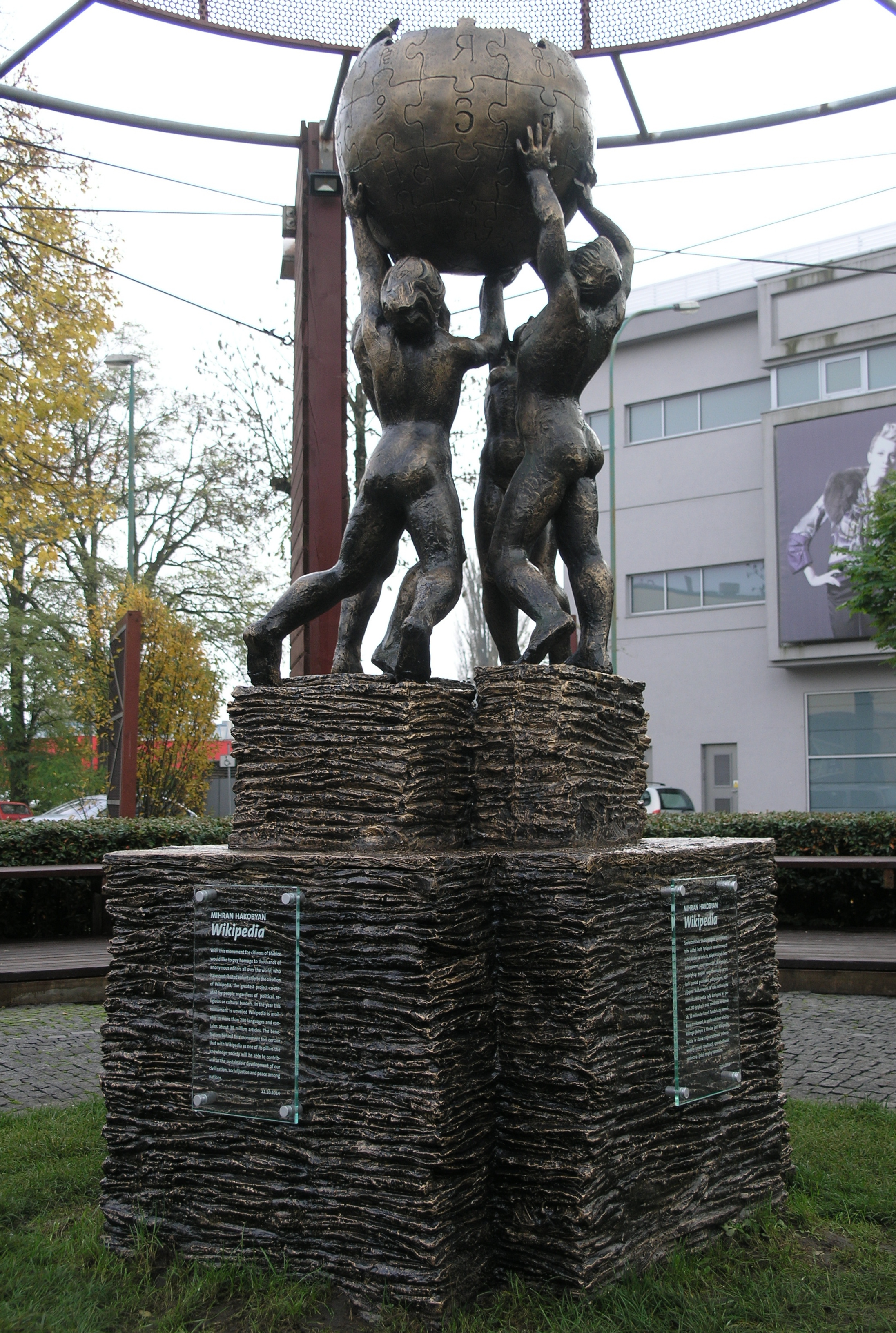 Wikipedia Monument in Słubice.